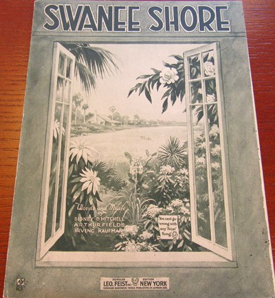 Sheet music cover art